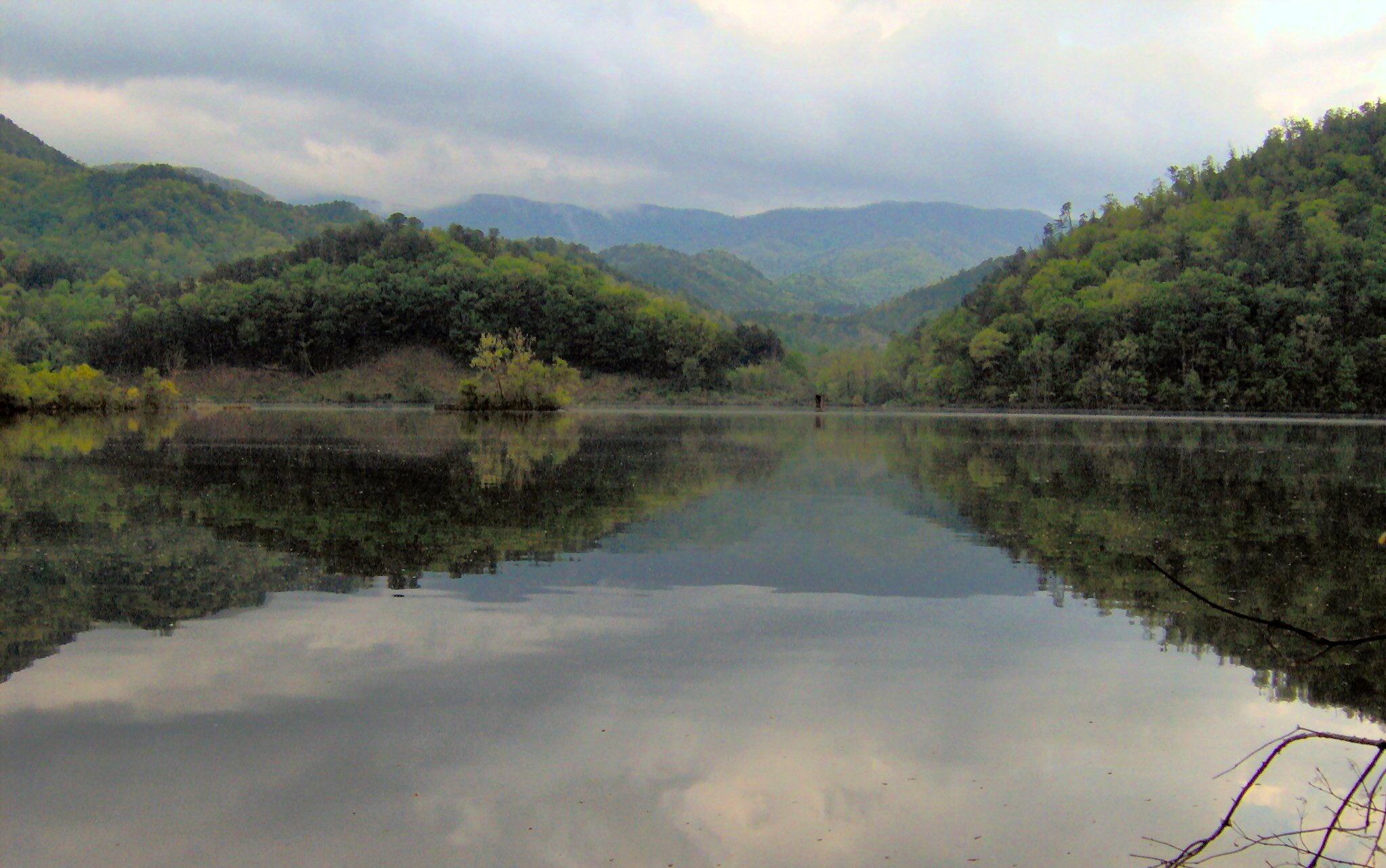 The now-submerged site of the ancient Cherokee village of Tallassee near Calderwood, Tennessee, in the southeastern United States. The site is now under the Chilhowee Lake impoundment of the Little Tennessee River.